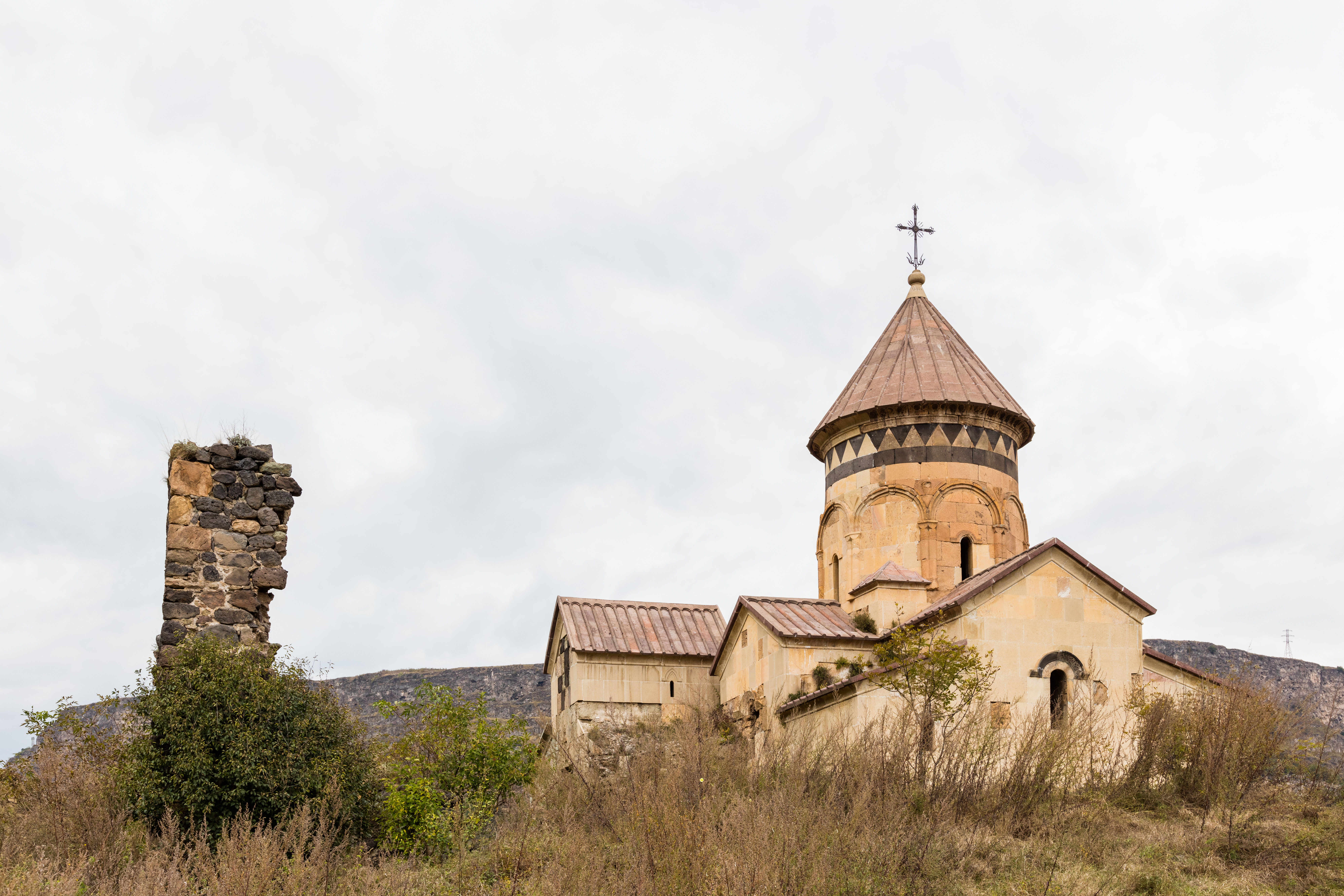 Hnevank Monastery, Armenia